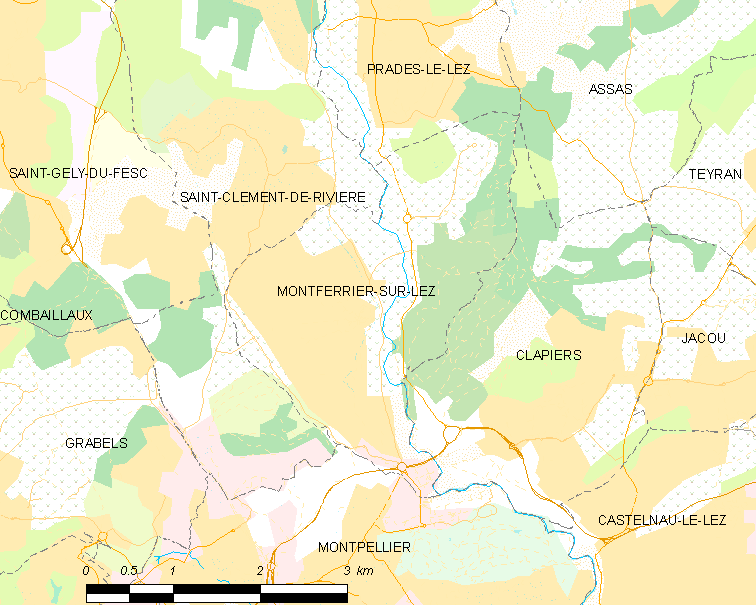 Map commune FR insee code 34169.png - Montferrier-sur-Lez